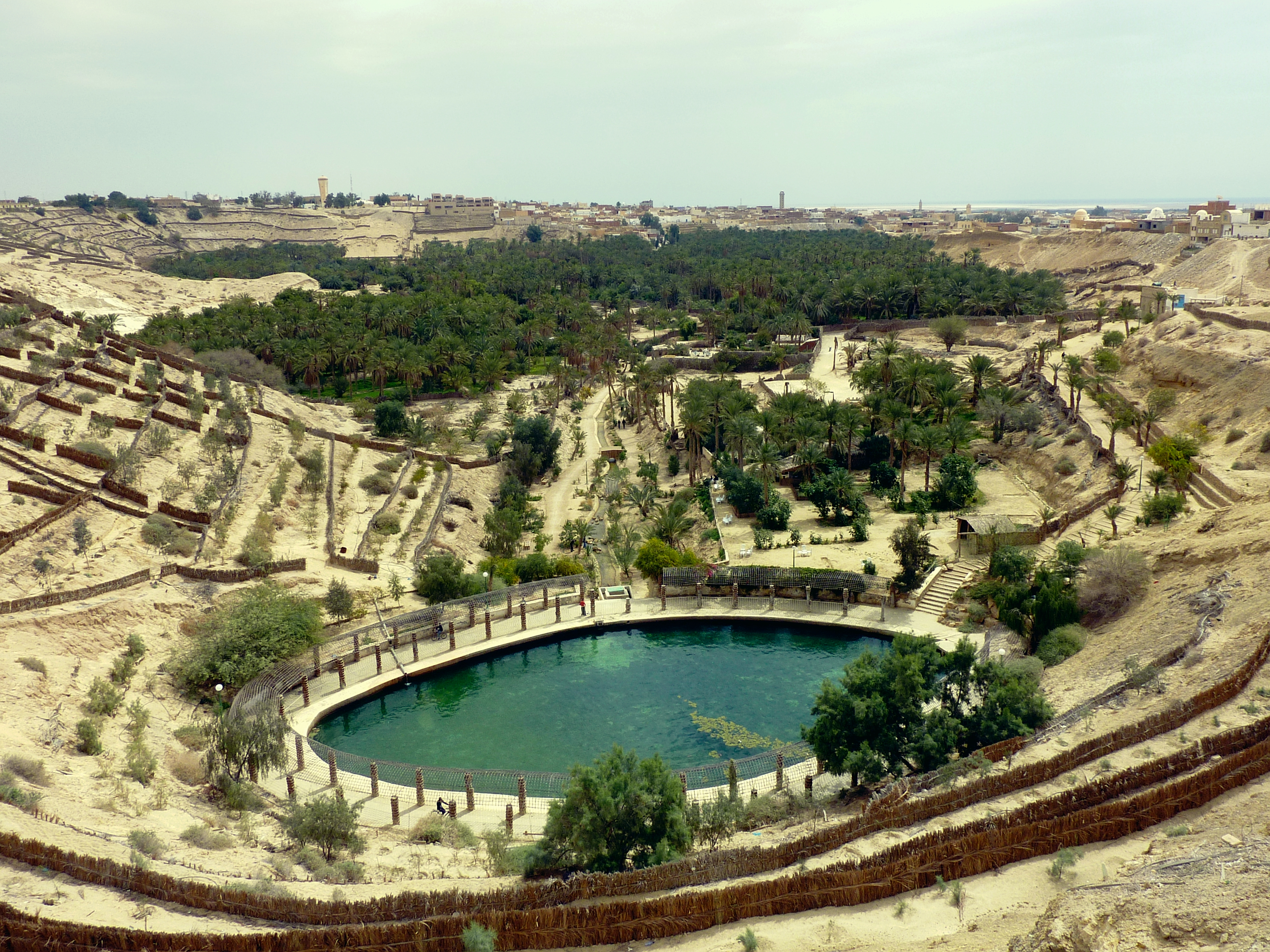 The Corbeille (Basket) in Nafta